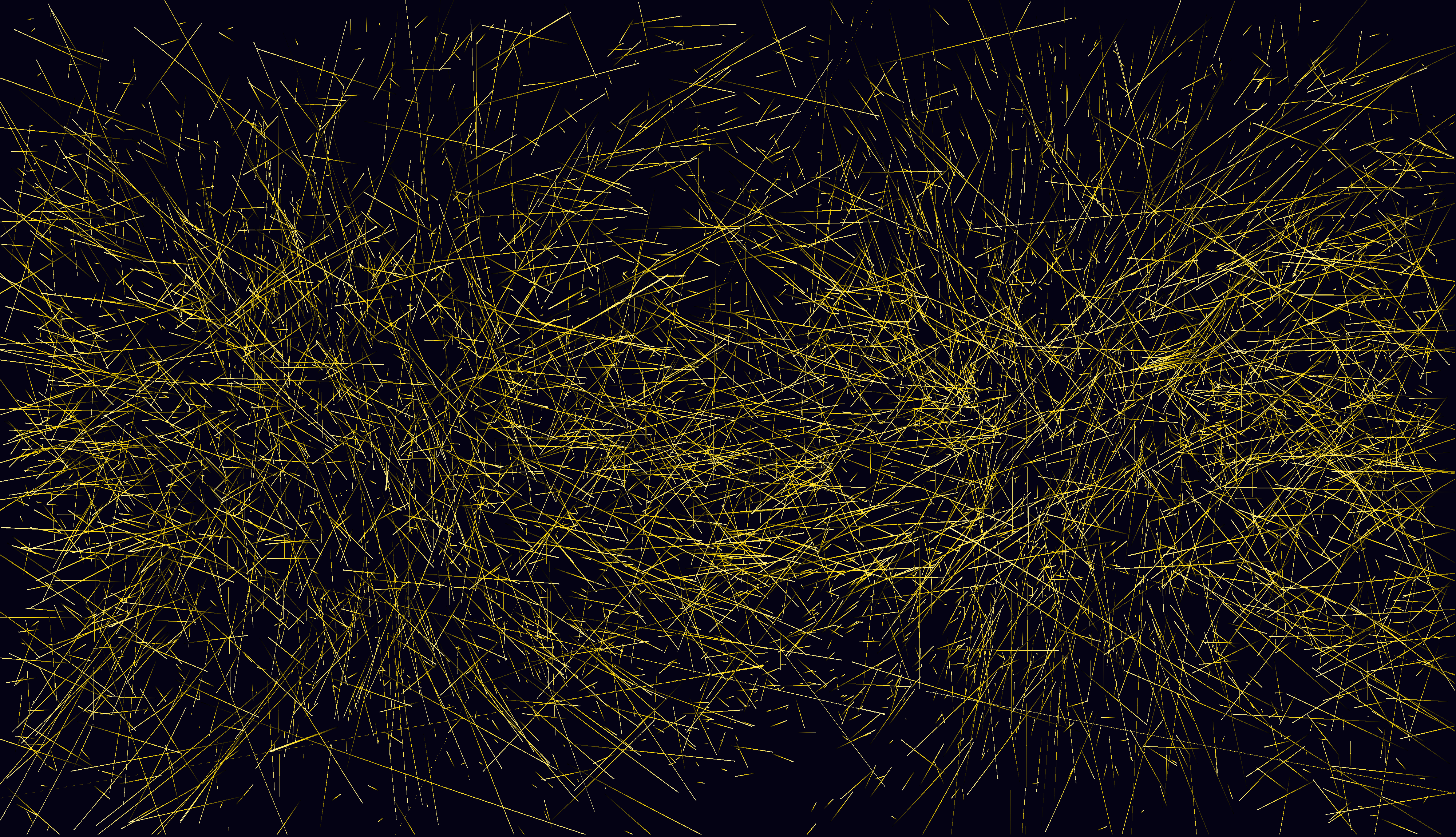 The movement of stars of spectral class G around the apex (left) and antapex (right) in -/+ 200 000 years.